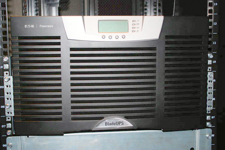 Eaton BladeUPS rackmount UPS unit